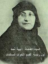 "Labiba Ahmed" The first leader to the women branch of Muslim brotherhood Organization